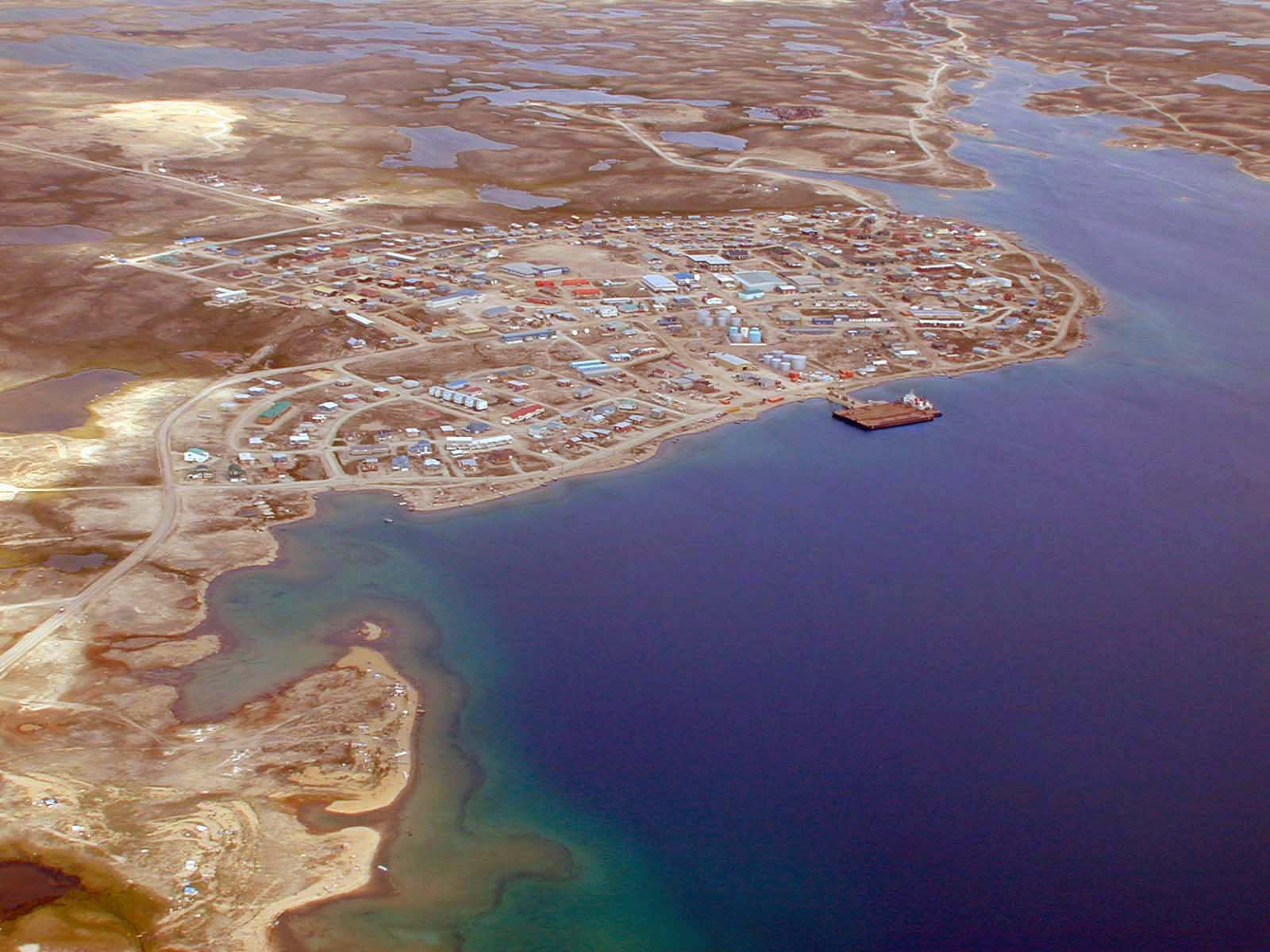 Aerial view of Cambridge Bay, Nunavut, Canada looking north. 12 August 1999.